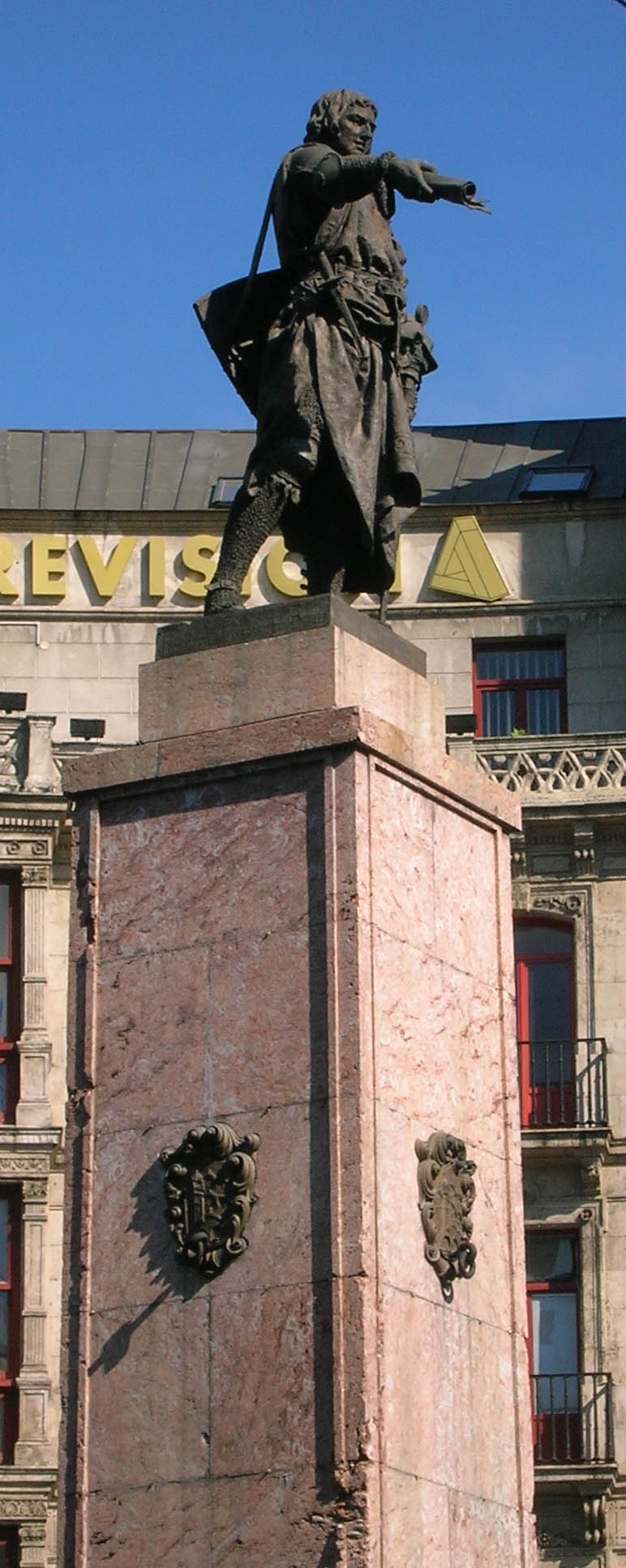 Monument to Diego Lopes V of Haro in Plaza Circular/Plaza Borobila, Bilbao. Sculpture by Mariano Benlliure.